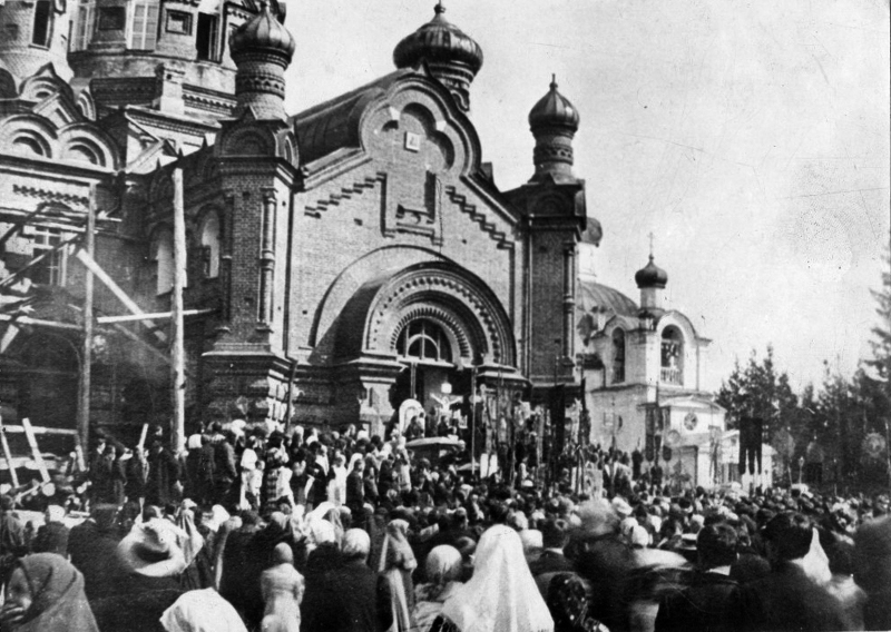 Consecration of the Church of the Ascension Monastery Skorbjashchensky (Our Lady of All Who Sorrow) in Nizhny Tagil. Photos 1913.